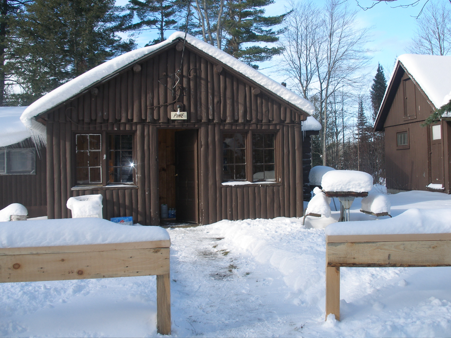 A cabin on Blue Lake in Alger County, Michigan covered in snow.